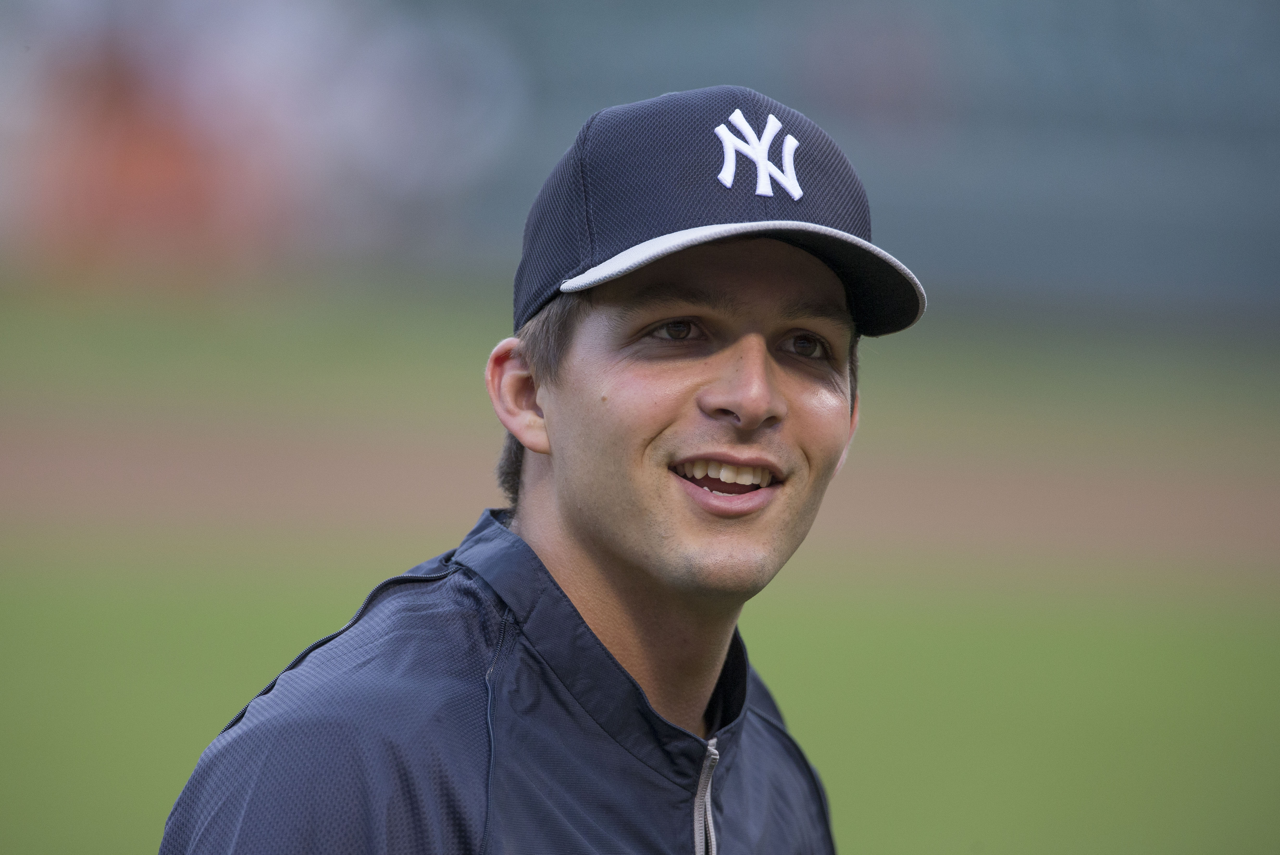 J. R. Murphy - New York Yankees @ Baltimore Orioles - September 09, 2013